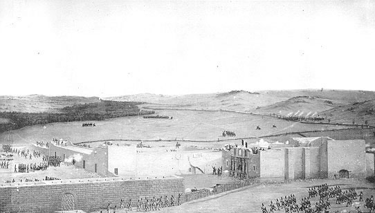 This is the painting Fall of the Alamo, painted by Theodore Gentilz in 1844.